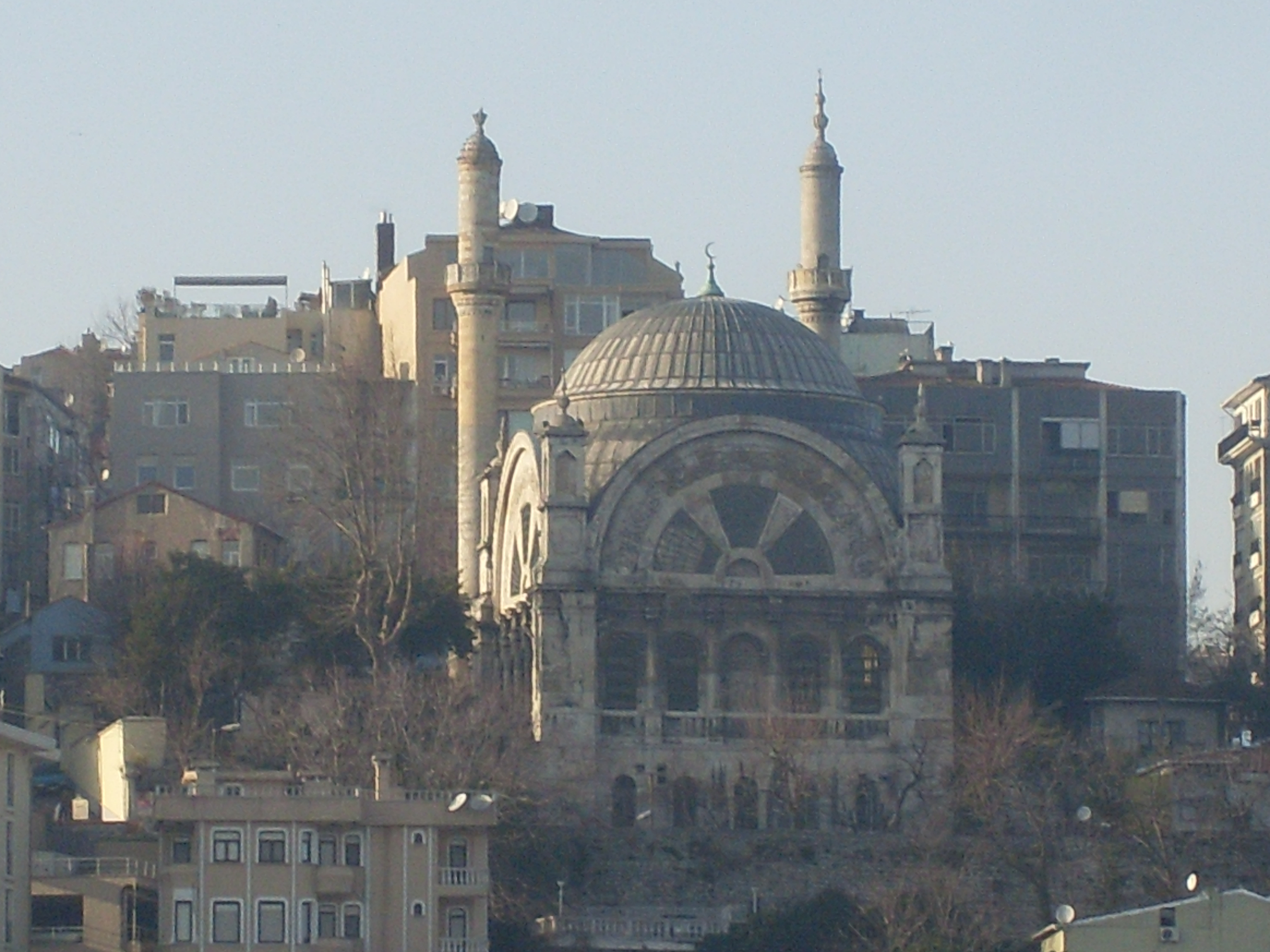 Şehzade Cihangir Mosque 4